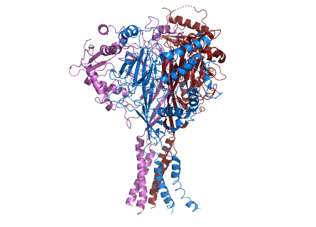 ENaC with subunits colored (alpha blue, beta red, gamma magenta). Produced using PyMol from PDB entry 6BQN.